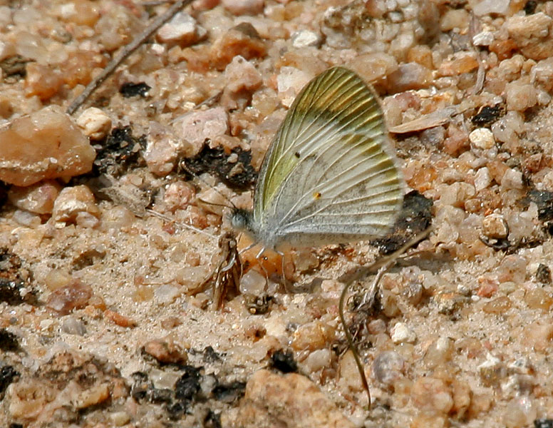 Small Orange-Tip Colotis etrida in Narsapur, Medak district, Andhra Pradesh, India.